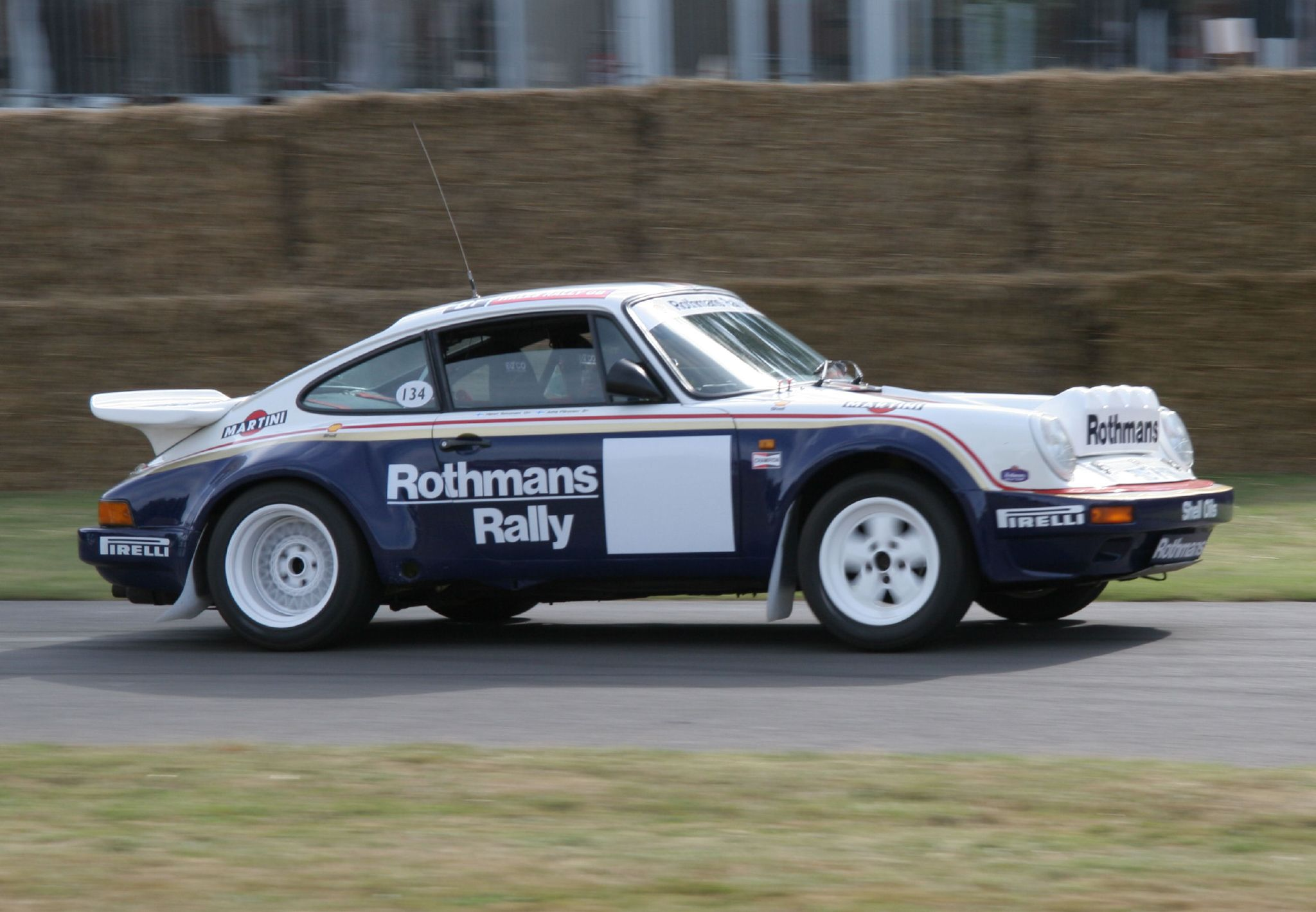 Porsche 911 SC-RS on the hillclimb at the 2006 Goodwood Festival of Speed.